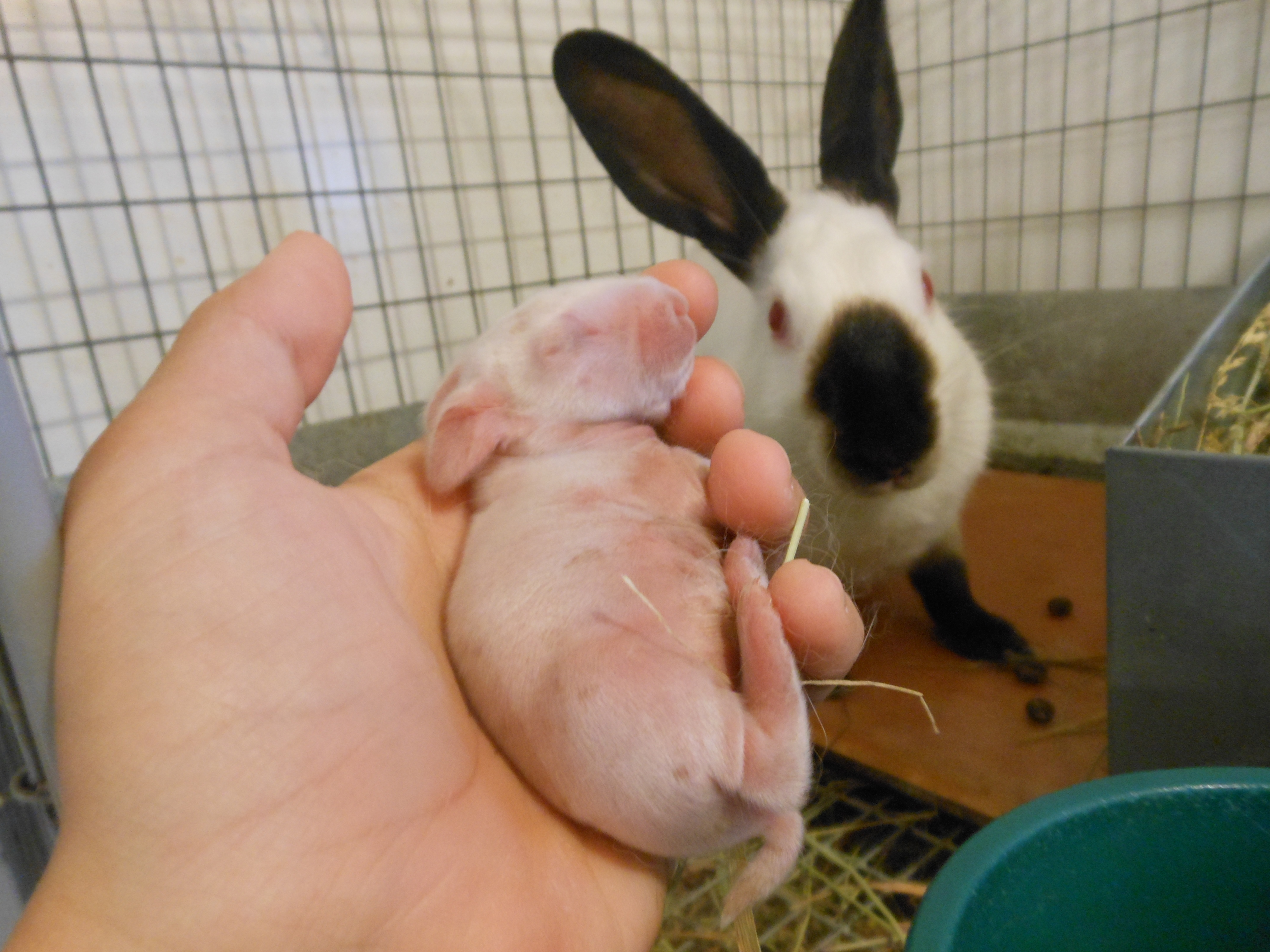 A Himalayan rabbit and her baby. This breed is so friendly they will not abandon babies if they are handled by humans.